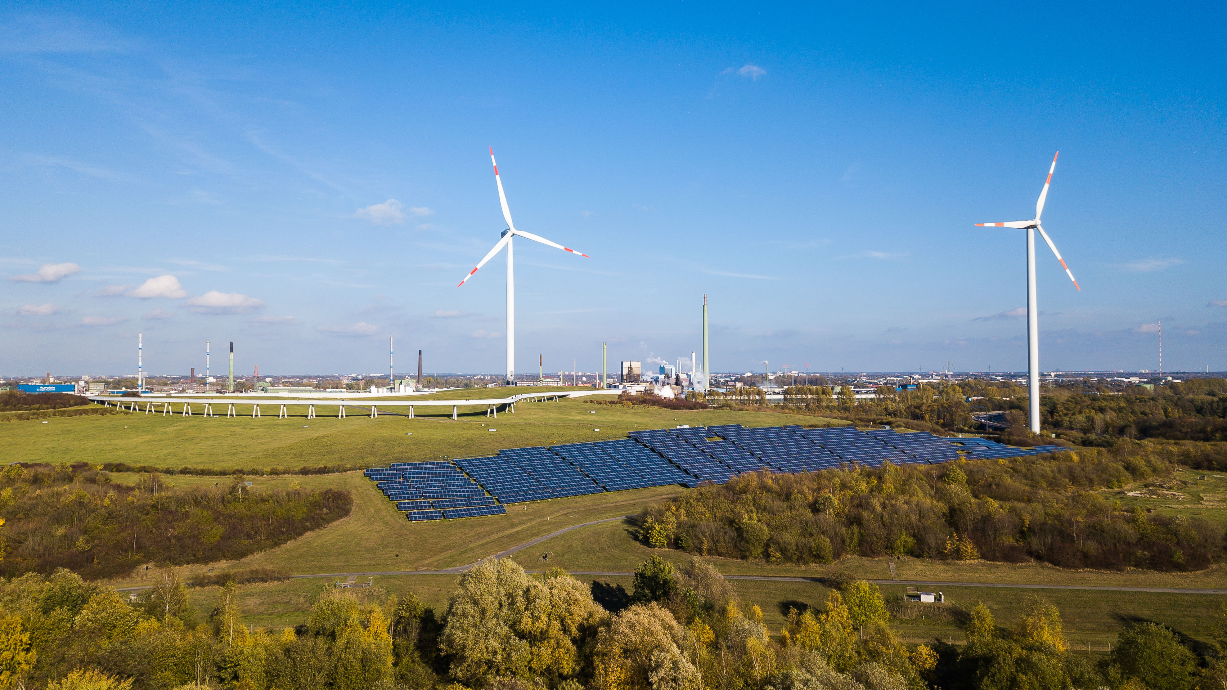 Former landfill in Georgswerder (Wilhelmsburg, Hamburg, Germany).